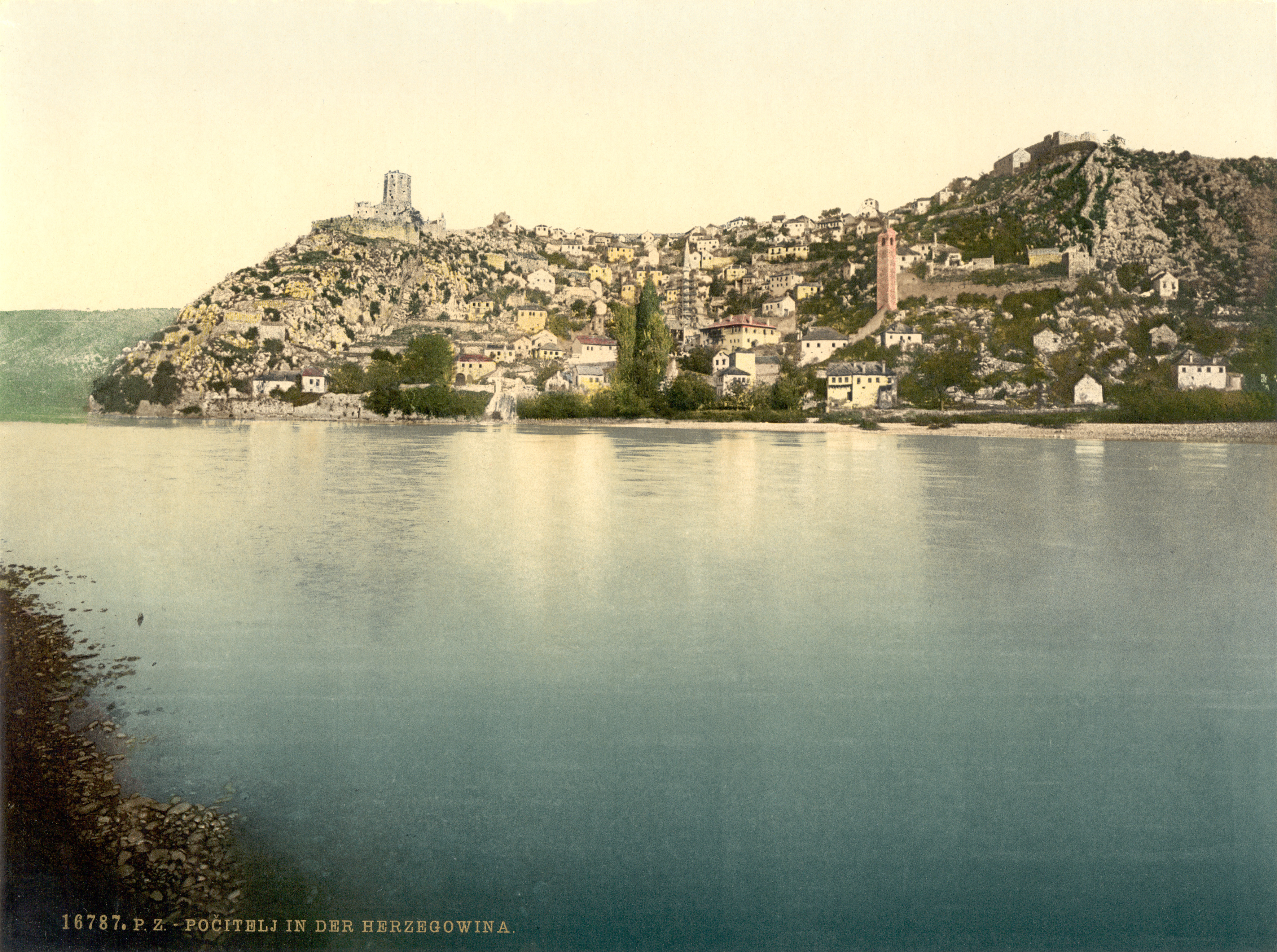 Pocitelj general view Herzegowina Austro-Hungary